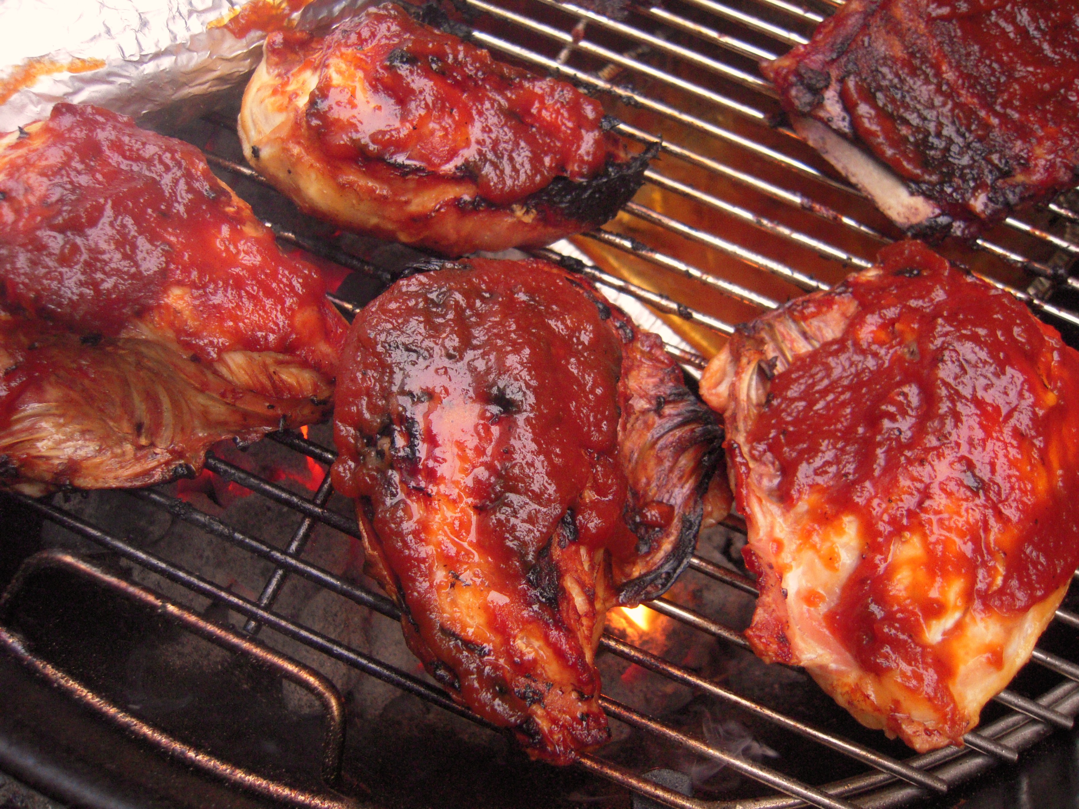 Can't claim credit for this cooking, my friend Paul was responsible.